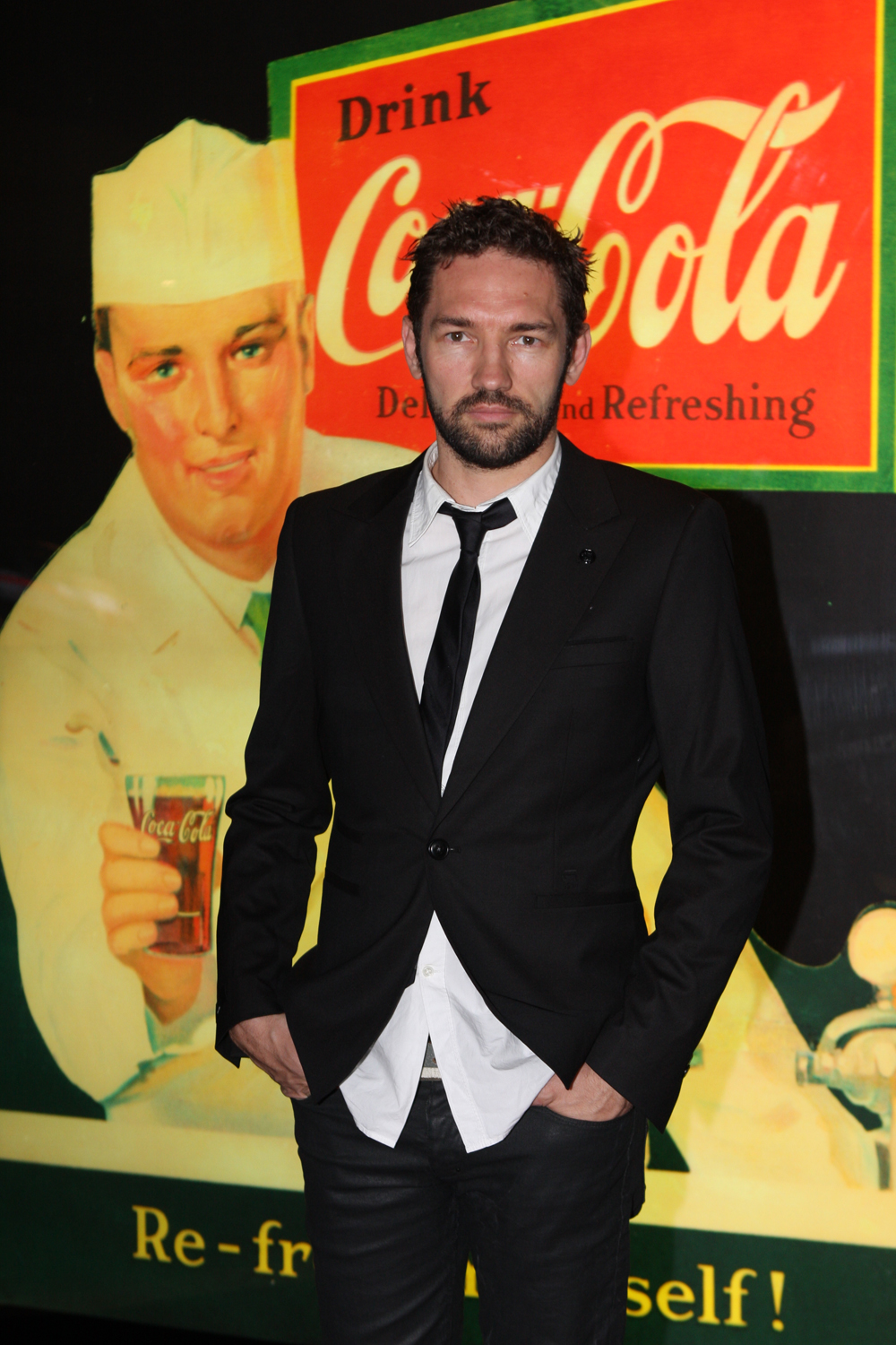 Wish You Were Here Premieres At Entertainment Quarter Hoyts, Moore Park, Sydney Cinema Release Date: 25 Apr 2012 Director: Kieran Darcy-Smith Featuring: Joel Edgerton, Teresa Palmer, Felicity Price, Antony Starr Producer: Angie Fielder Country of Origin: Australia Genre: Drama Official website: Wish You Were Here is a psychological drama/mystery starring Joel Edgerton, Felicity Price and Teresa Palmer. Four friends - husband and wife Dave and Alice, and Alice's sister Steph and her new boyfriend Jeremy - lose themselves in the fun of a carefree South East Asian holiday. However, only three return back to Australia. Dave and Alice come home to their young family desperate for answers about Jeremy's mysterious disappearance. When Steph, returns not long after, a brutal secret is revealed about the night her boyfriend went missing. But it is only the first of many. Who amongst them knows what happened on that fateful night when they were dancing under a full moon in Cambodia? Wish You Were Here is produced by Angie Fielder of the award-winning, independent Australian production company Aquarius Films, in association with the acclaimed indie director's collective Blue-Tongue Films (Animal Kingdom). Websites Wish You Were Here Hopscotch Films Hoyts The Entertainment Quarter Eva Rinaldi Photography Flickr Eva Rinaldi Photography